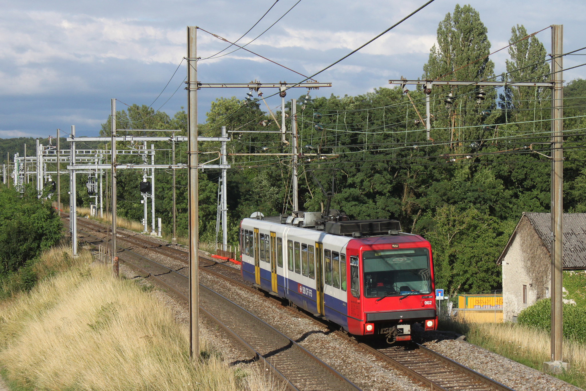 SBB CFF FFS Bem 550 002 en route as R 96780 from Genève to Bellegarde between Russin and La Plaine.